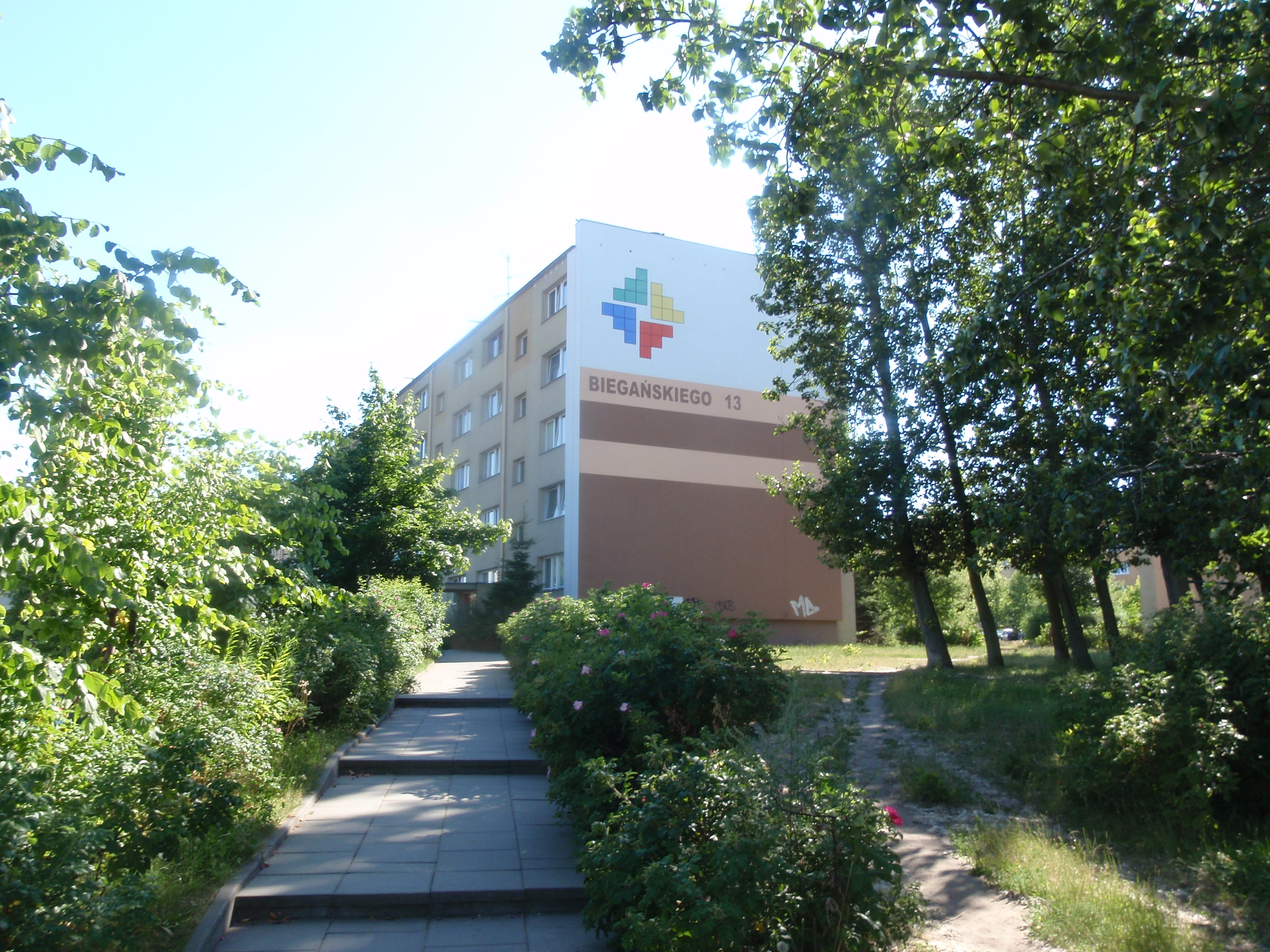 House at 13 Biegańskiego Street in Gdańsk.